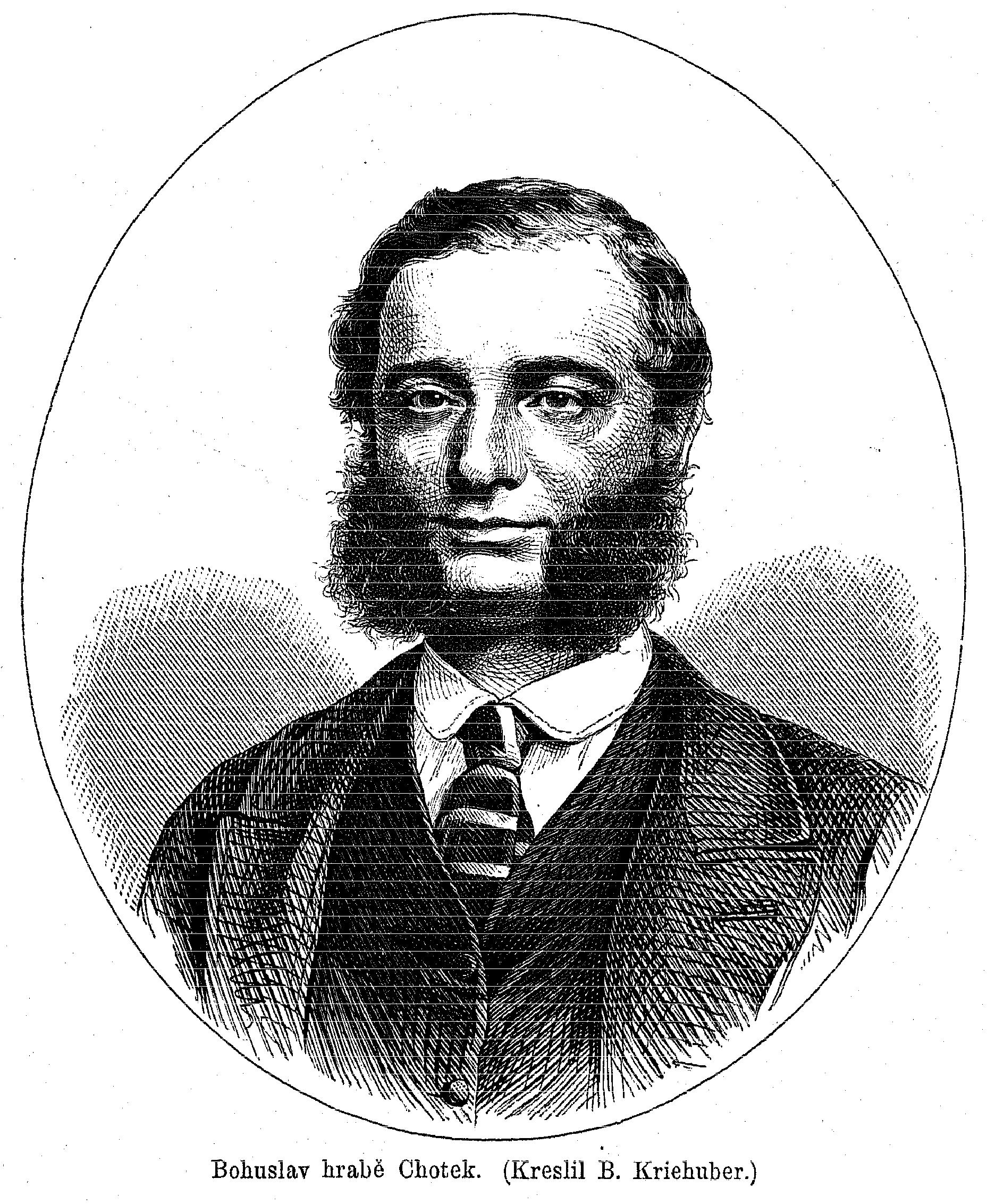 Portrait of Bohuslav Chotek z Chotkova (German version: Boguslaw Chotek von Chotkow, 1829 - 1896), Czech nobleman and Austrian diplomat. Published on occasion of appointment as ambassador of Austria-Hungary in St. Petersburg, Russia.